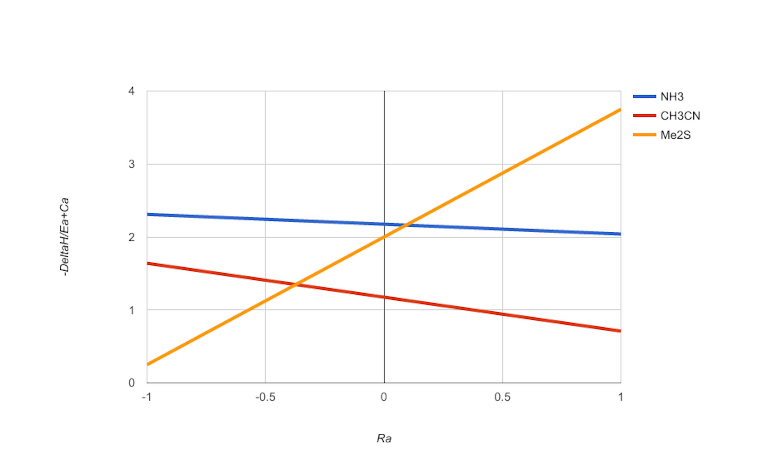 ECW Model